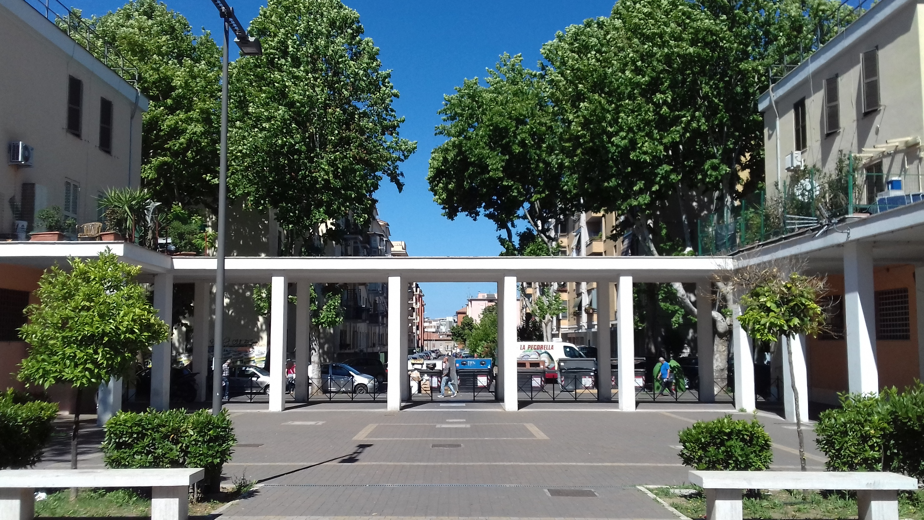 Courtyard of a public housing complex in quarter Primavalle in Rome, Italy. The complex was ultimated in 1936.